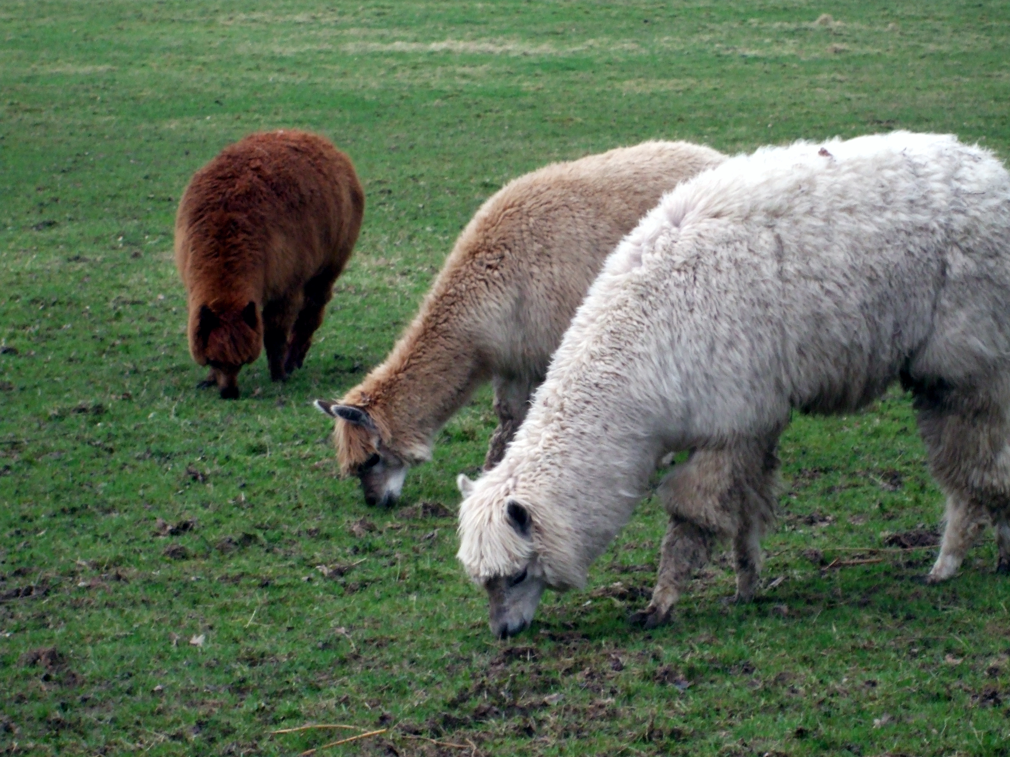 in a field,Reigate,Jan 2008..much closer to the road today :-)